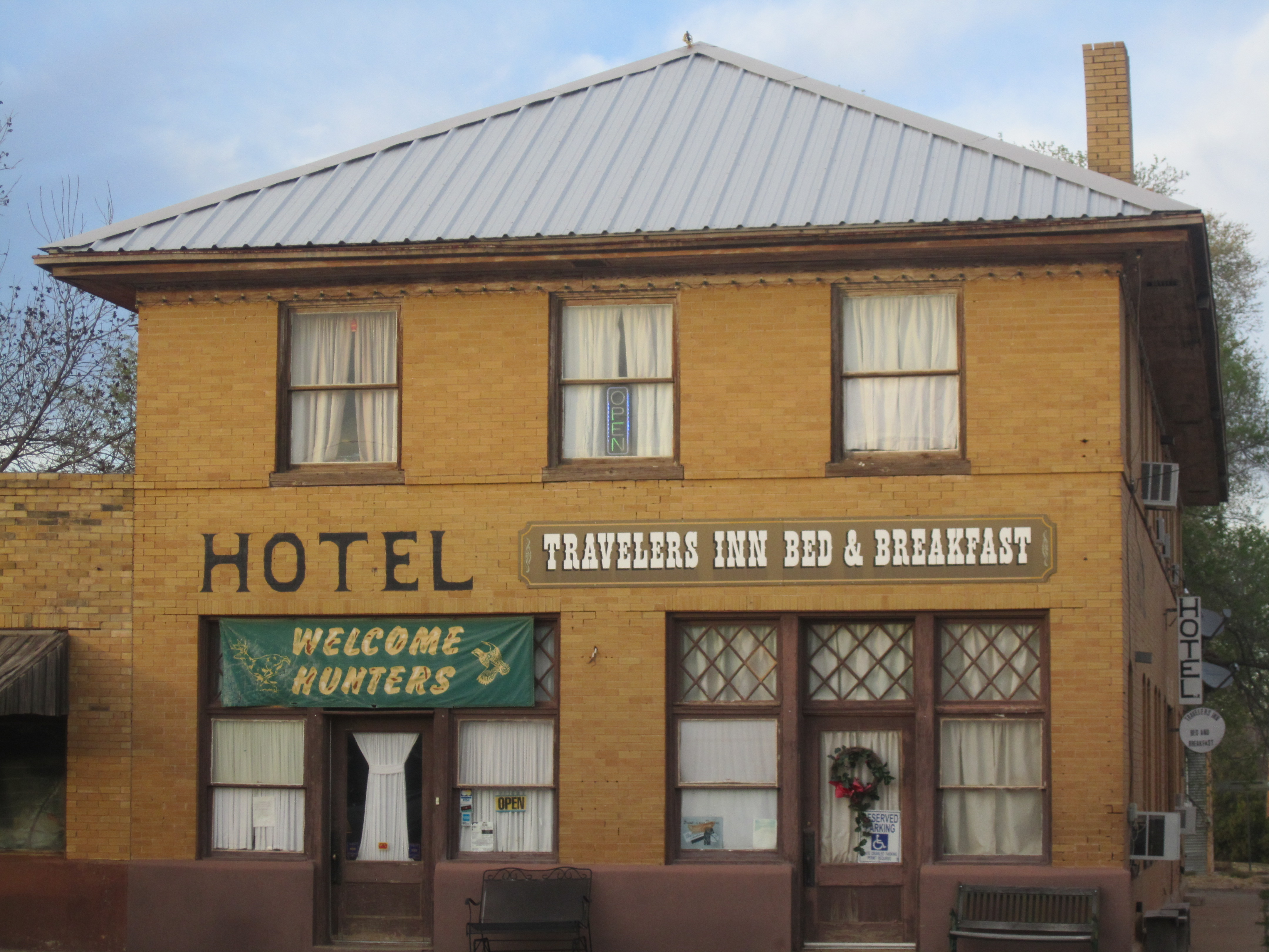 I took photo with Canon camera in Roaring Springs, TX.